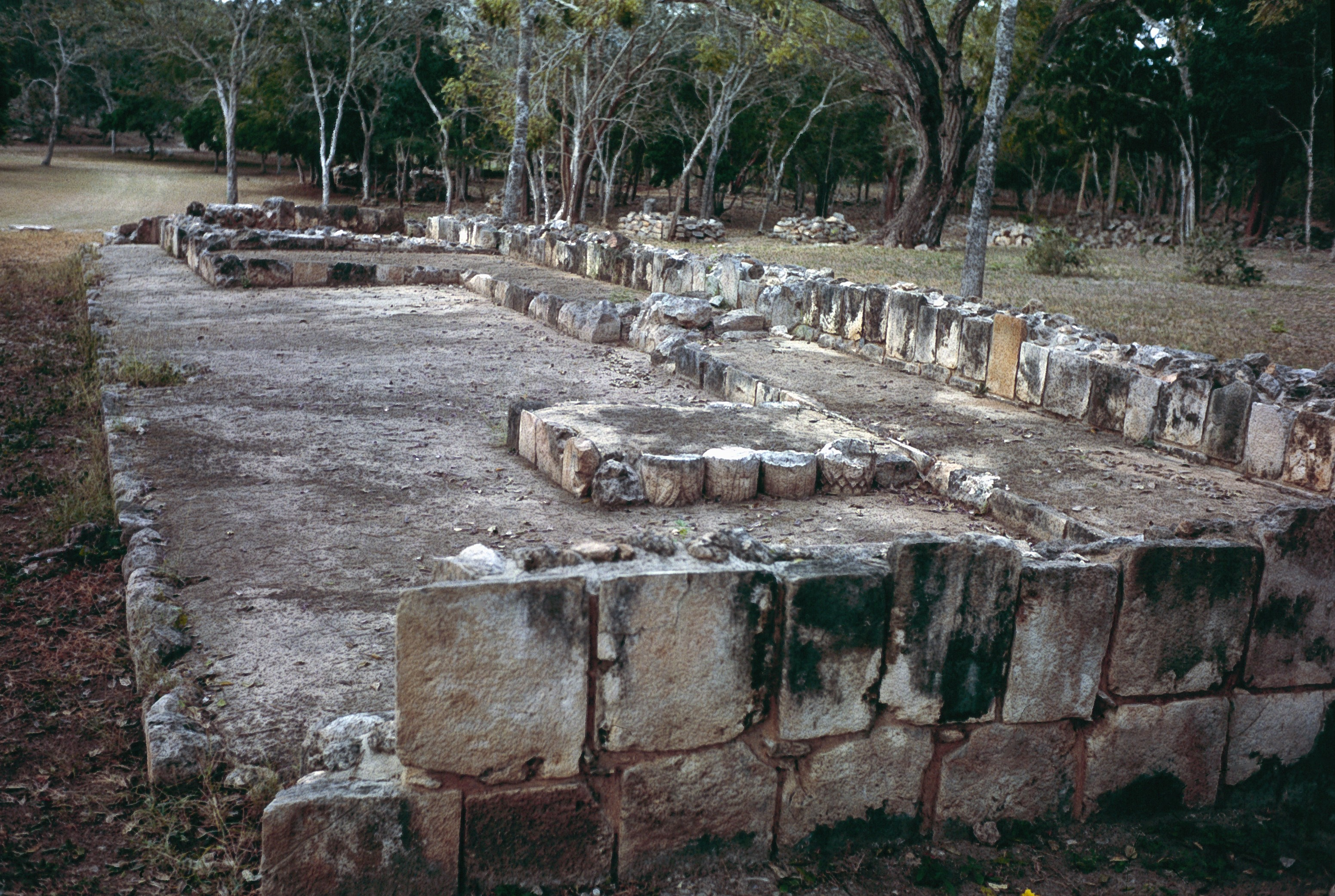 Uxmal, Yucatan, Mexico: C-shaped building M12-2